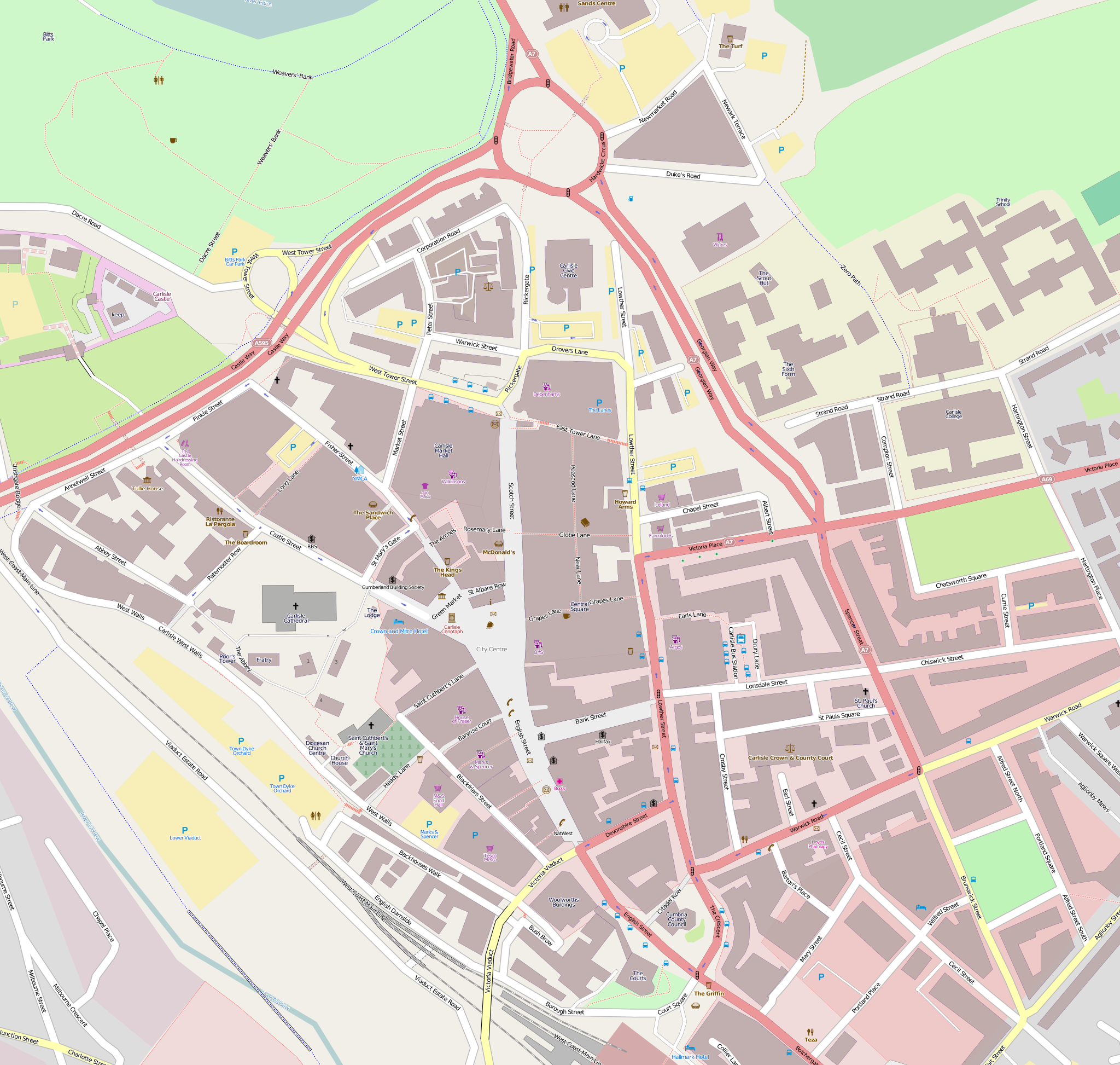 Map of Carlisle, Cumbria Central Geographic limits: N: 54.89943° S: 54.89123° W: -2.94275° E: -2.92678°